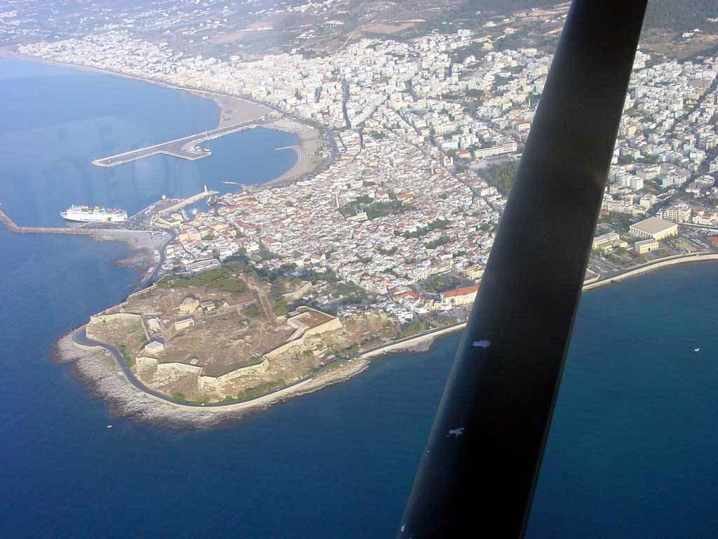 Greece Rethymno - port and fort (Crete, Greece)